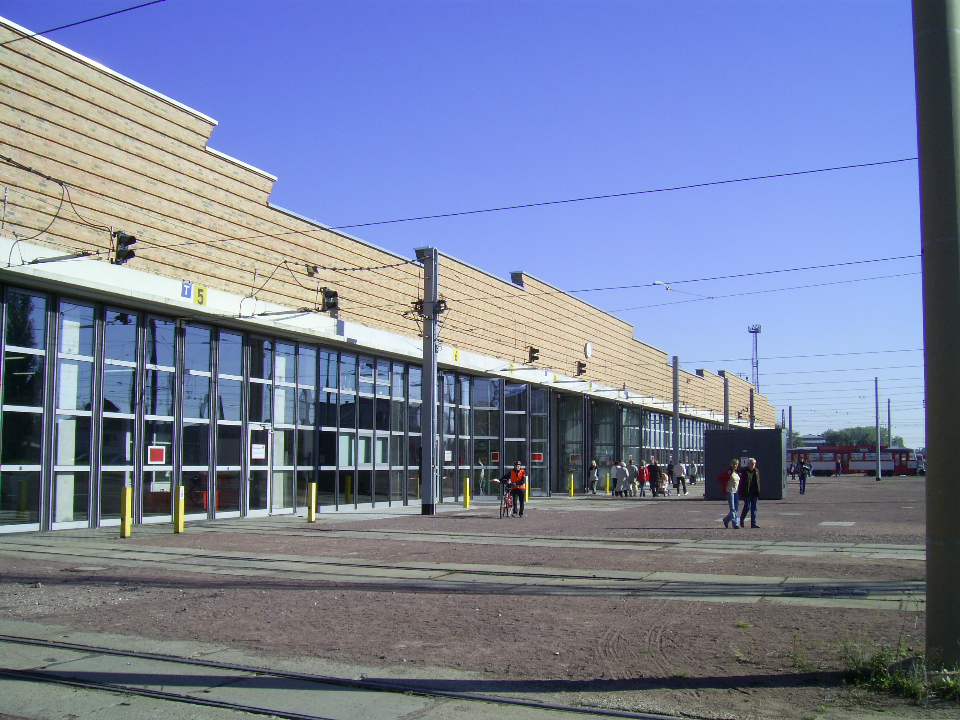 Tram depot of Halle (Saale)